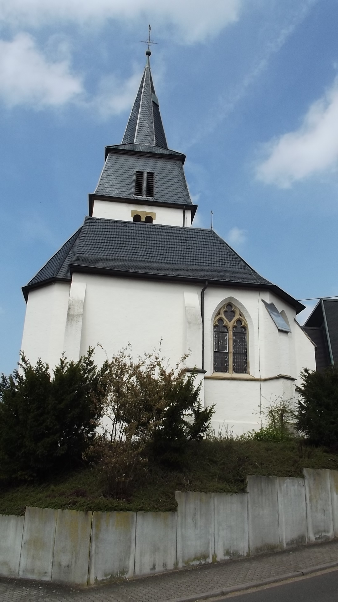 Exterior of the old roman catholic church in Primstal, Saarland